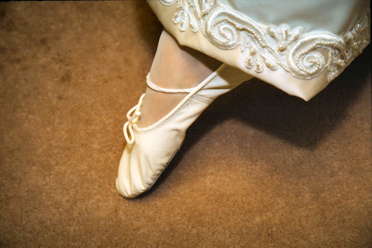 A ballet slipper (not a pointe shoe) displayed by a bride